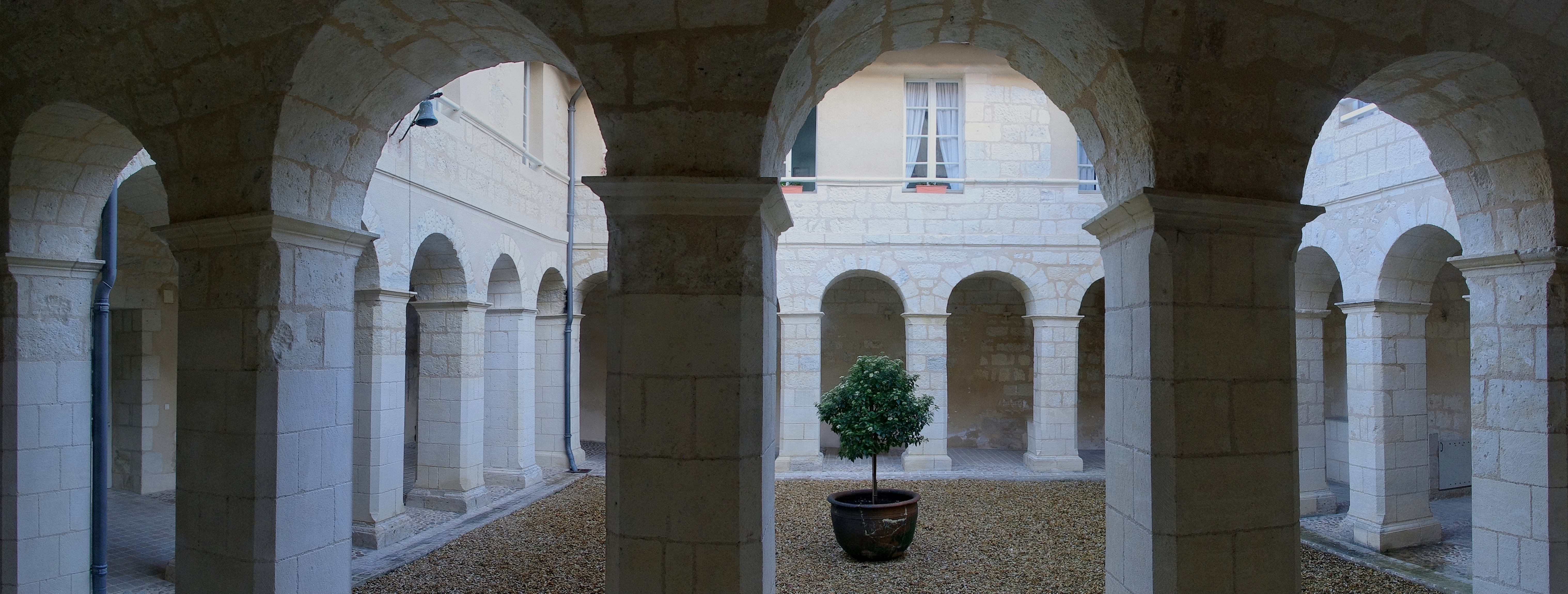 View of the cloister, convent of the Minimes, Aubeterre-sur-Dronne, Charente, France.